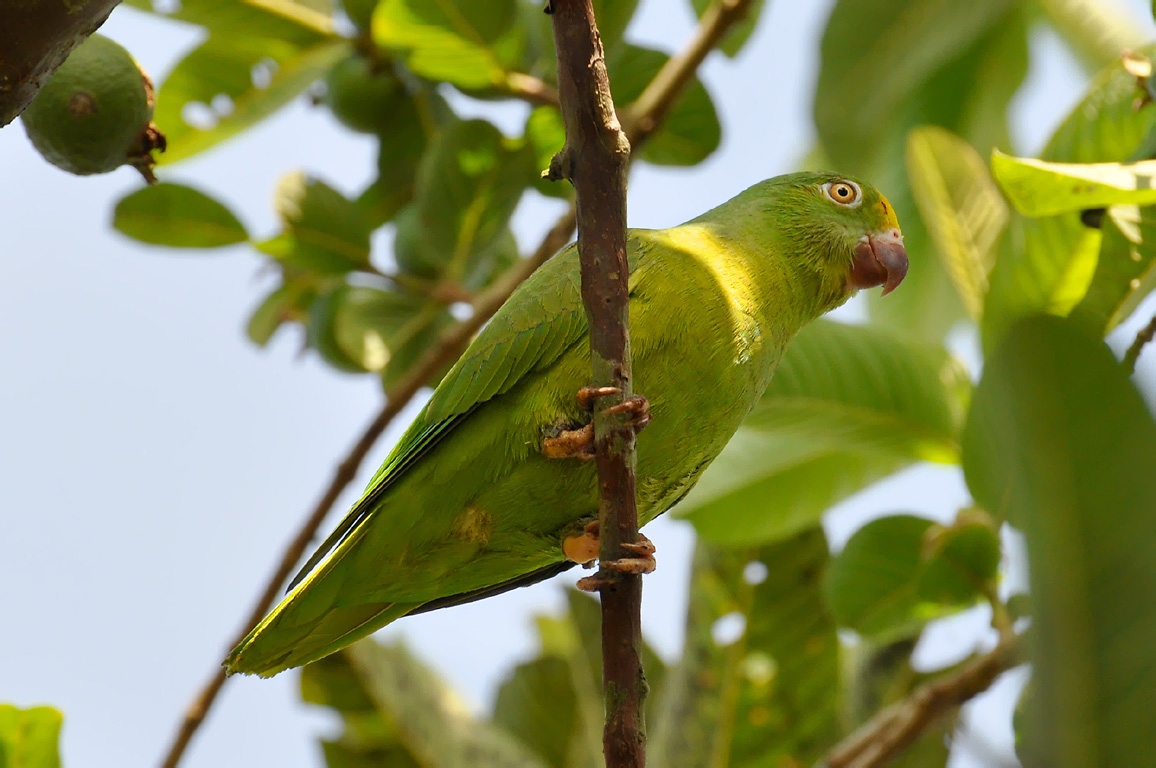 A Tui Parakeet in Uarini, Amazonas, Brazil.